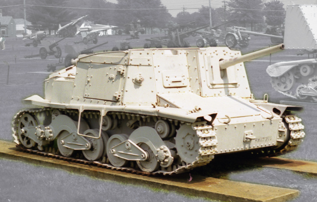 Semovente 47/32 on display at the US Army Ordnance Museum at Aberdeen. The picture taken year 2000.